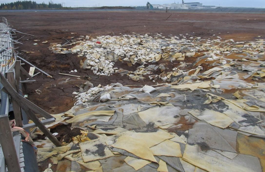 Photograph of the Gypsum Pond One (Kipsisakka-allas 1) of Talvivaara mine after leakage, and bentonite mats and bags of stone ash used in plugging the leak.